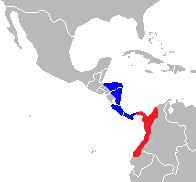 Distribution of Cebus capucinus (red) and Cebus imitator (blue)